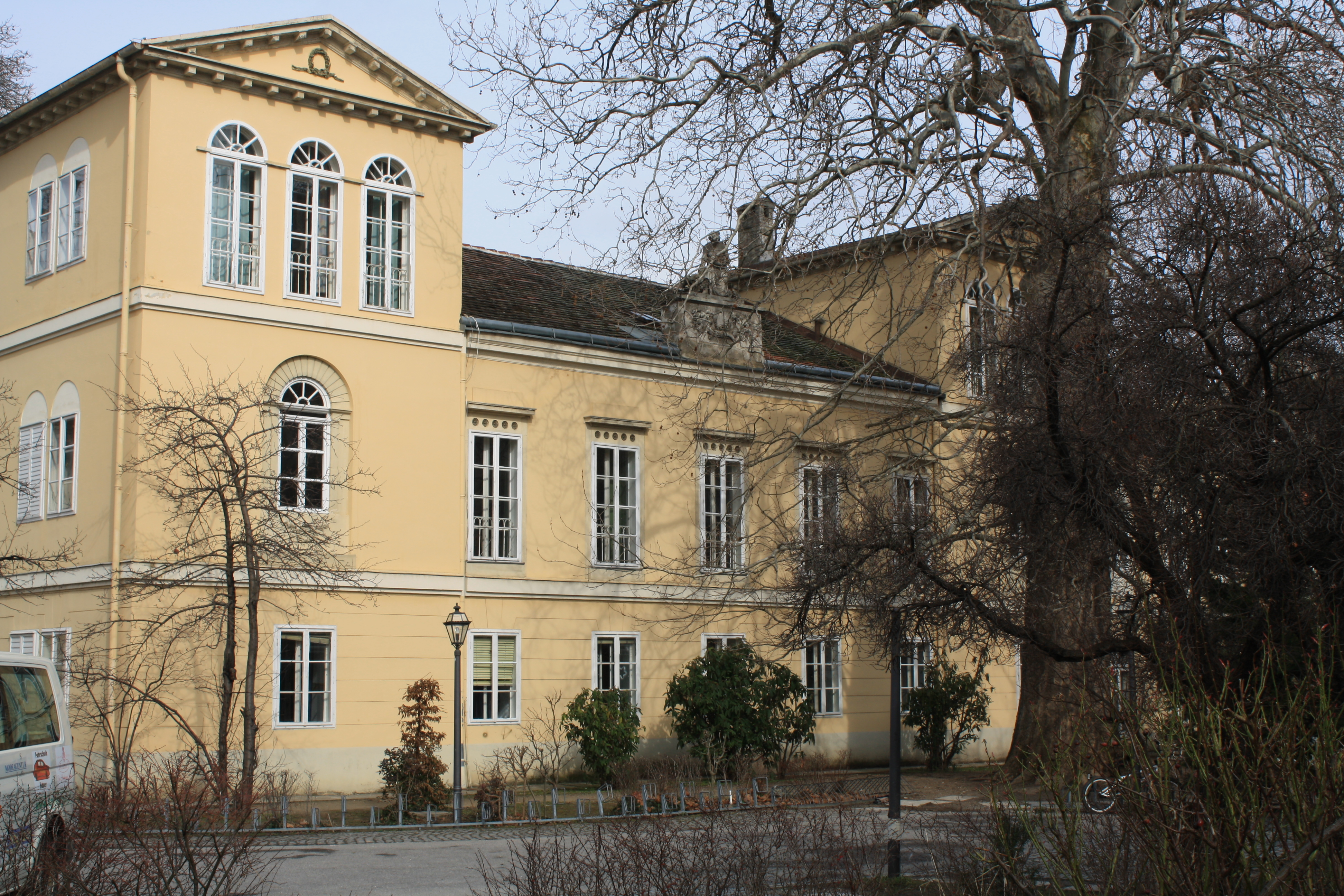 Flora-Stoeckl in Baden Lower Austria